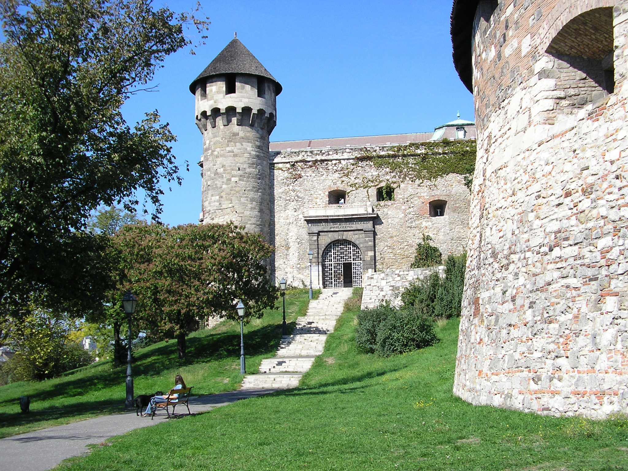 A tower in the Buda Castle (Budapest)